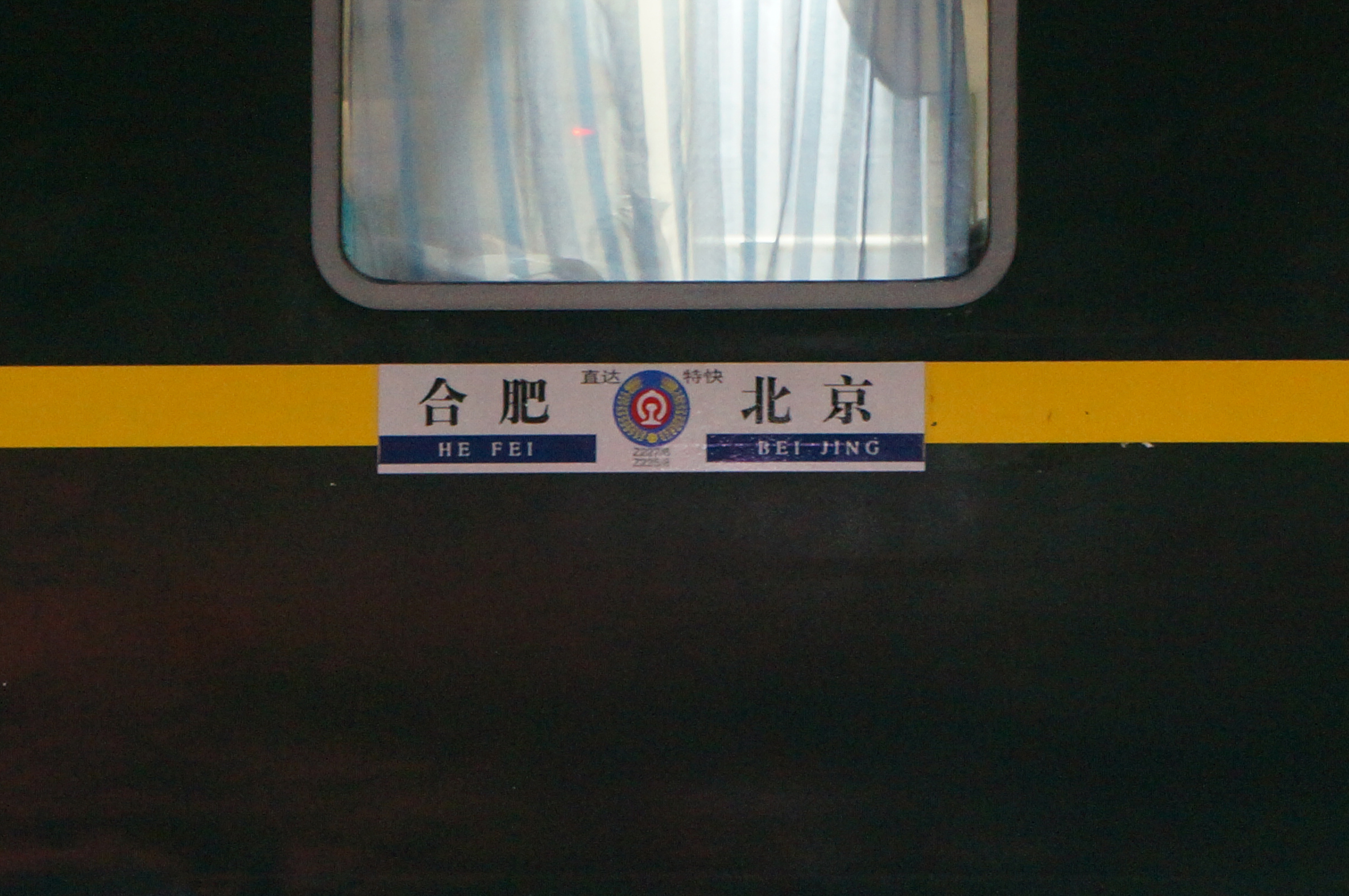 Z225 6 7 8 infobaord in 201705